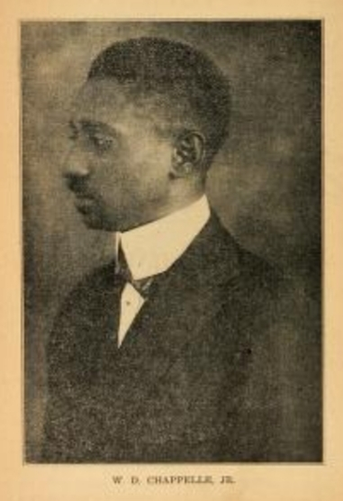 Portrait of W.D. Chappelle, Jr.